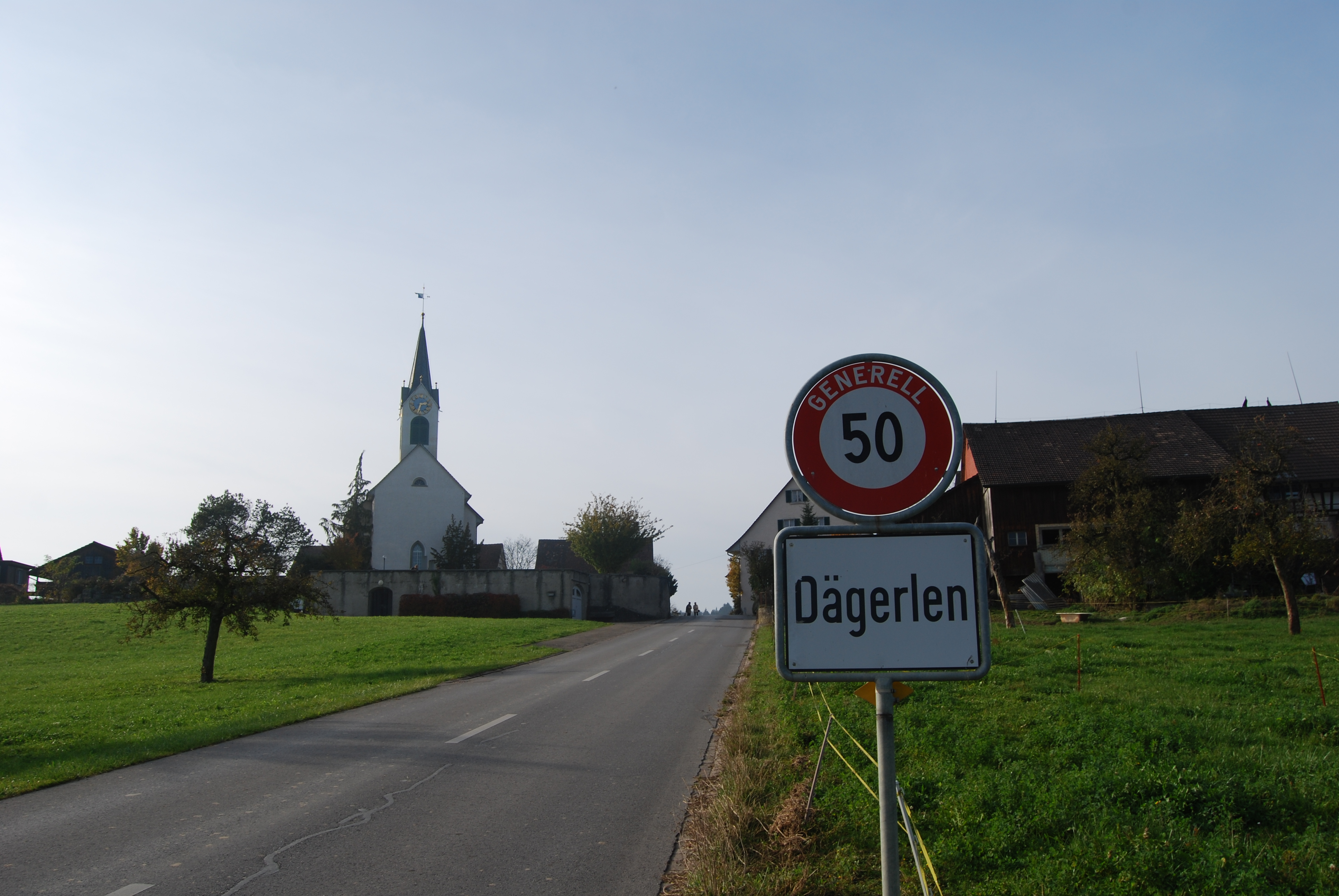 Church of Dägerlen, canton of Zürich, SwitzerlandEsperanto: Preĝejo de Dägerlen, Kantono Zuriko, Svislando